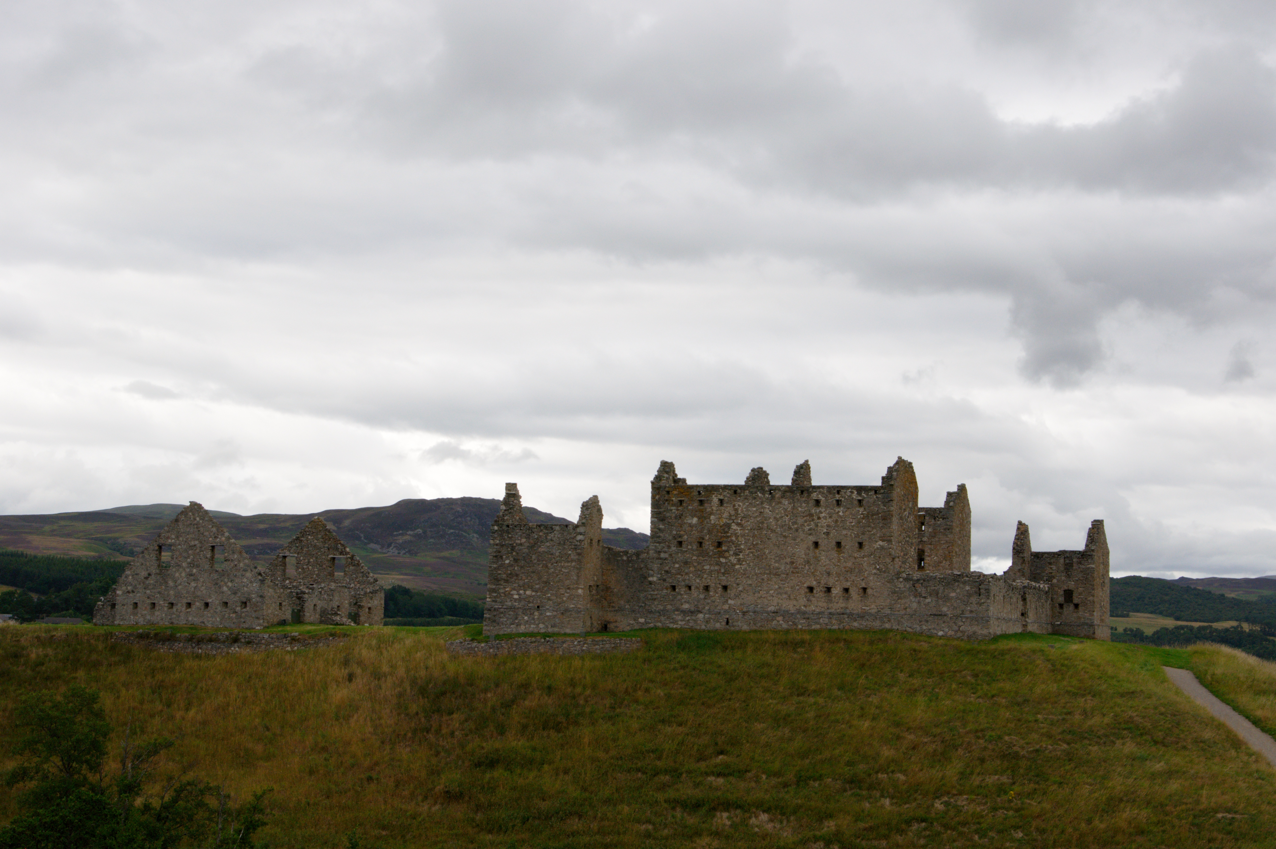 Ruins of Ruthven Barracks near Kingussie